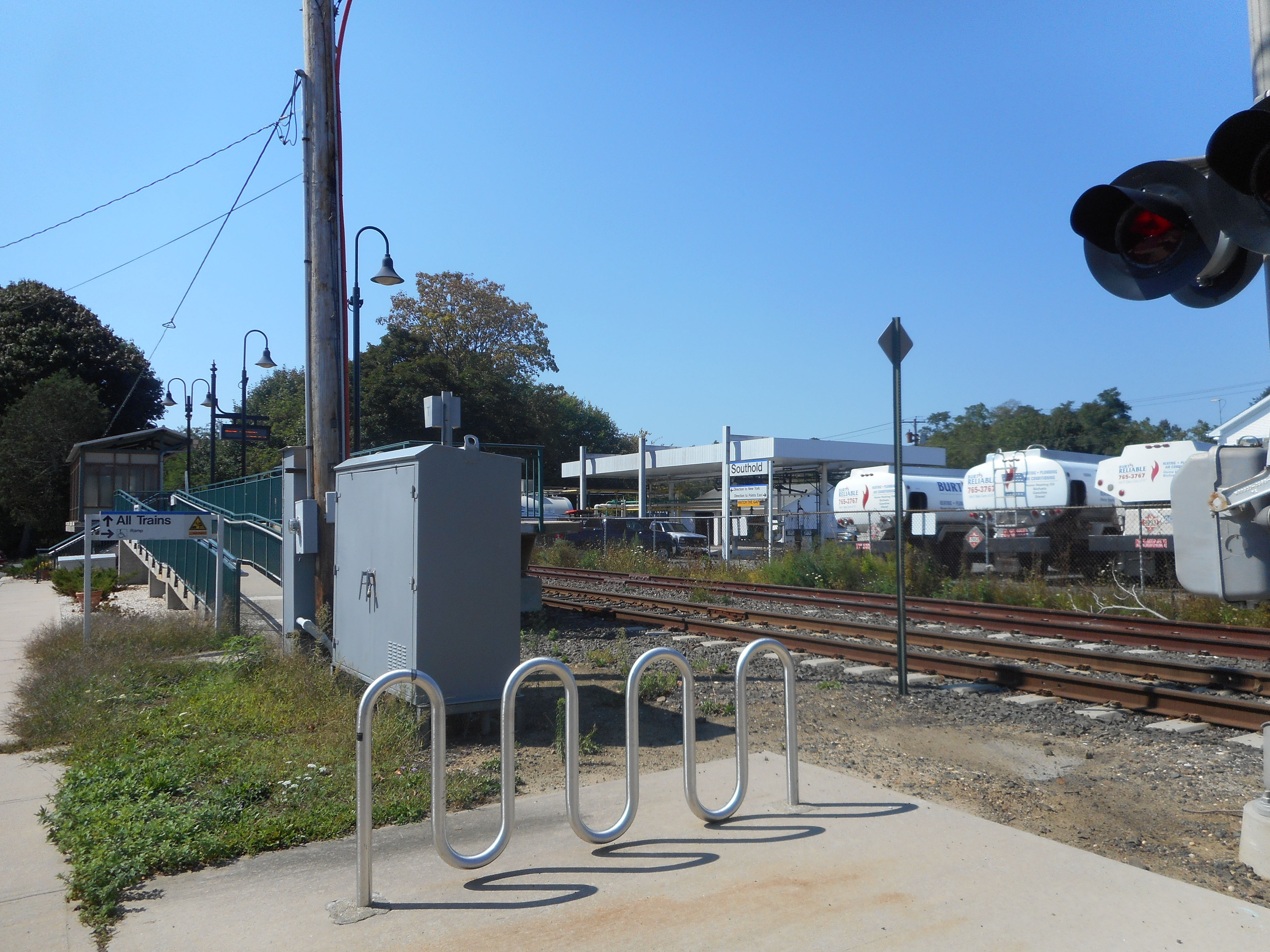 The Southold (LIRR station) in the hamlet of Southold, New York. Further details and a possible rename to come later.